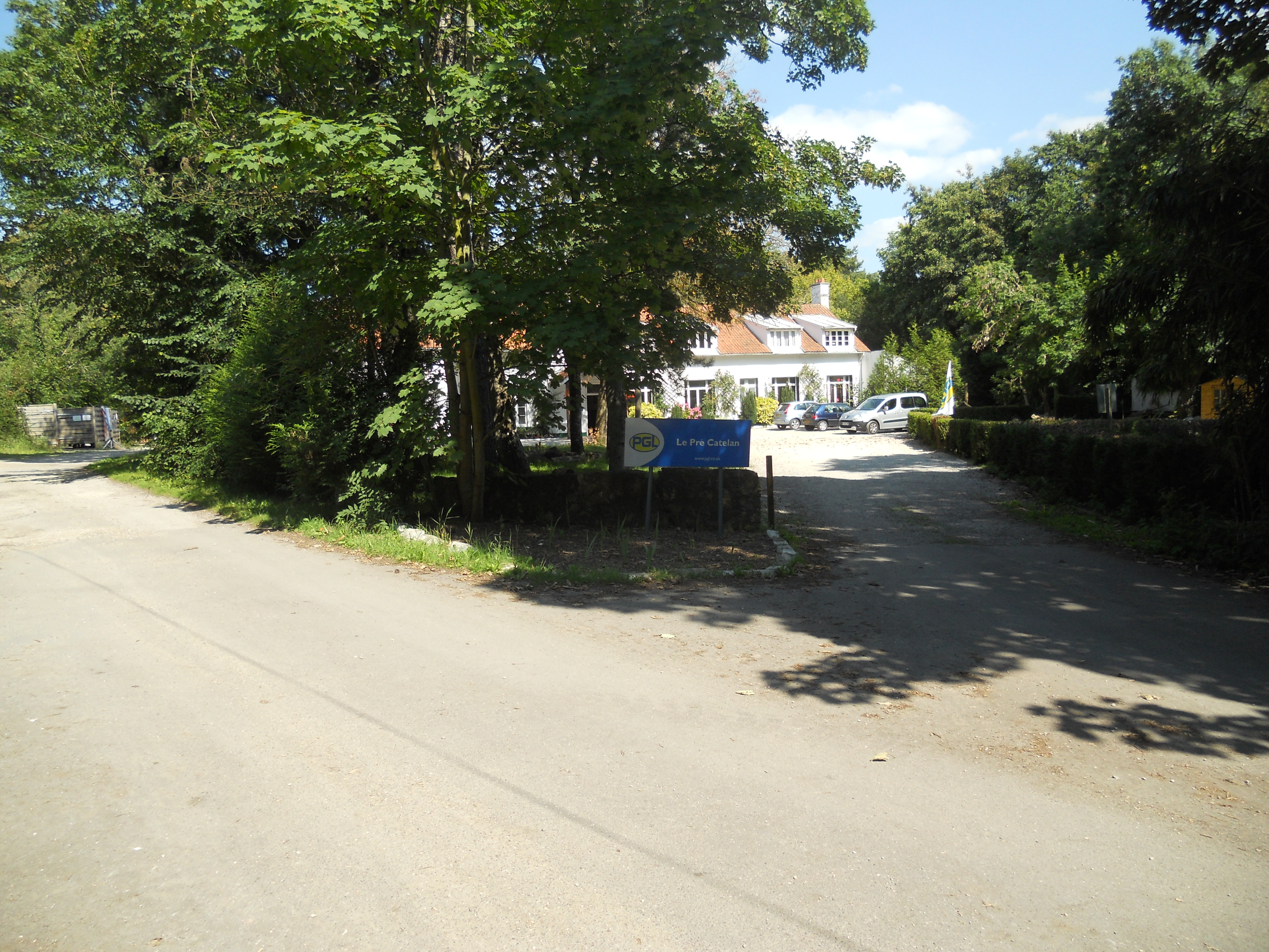 The PGL Center, of the Catelan Corner at Saint-Etienne-au-Mont, in France.